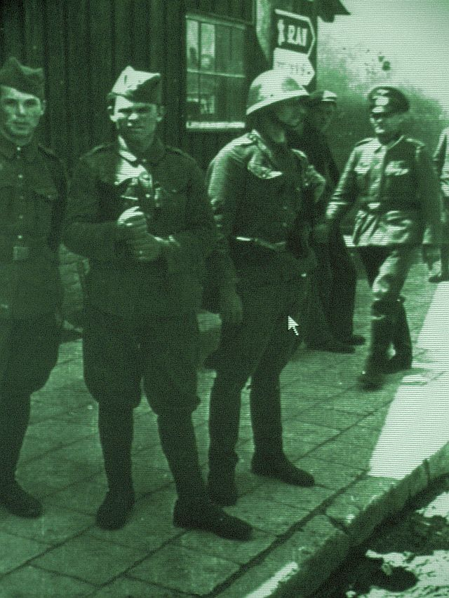 1941 Sanok